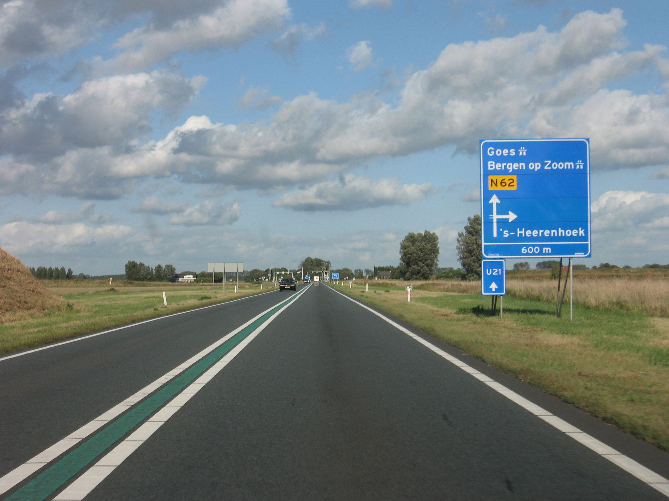 N62, Sloeweg